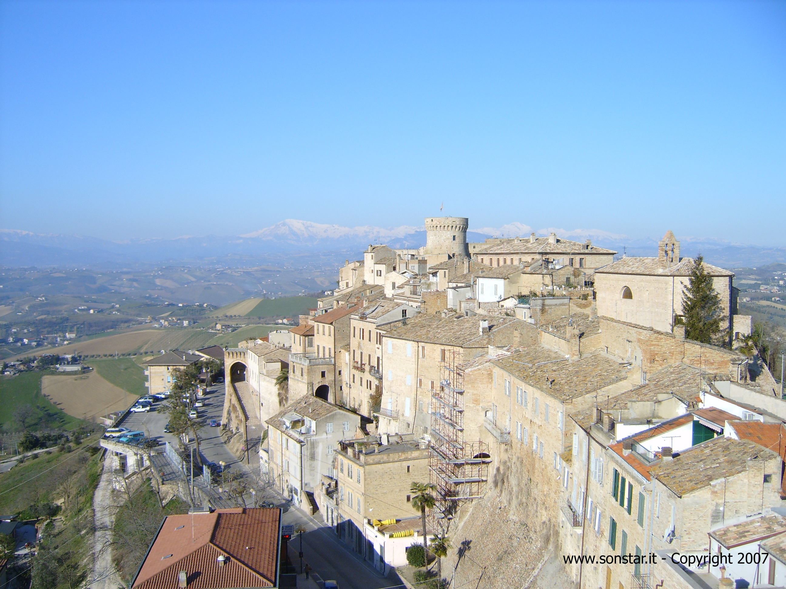 Acquaviva Picena's landscape